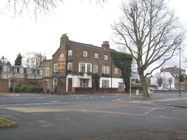 Coach & Horses pub, London Road, Isleworth A Young's Brewery public house; it was previously a stop for coaches enroute to the West Country.